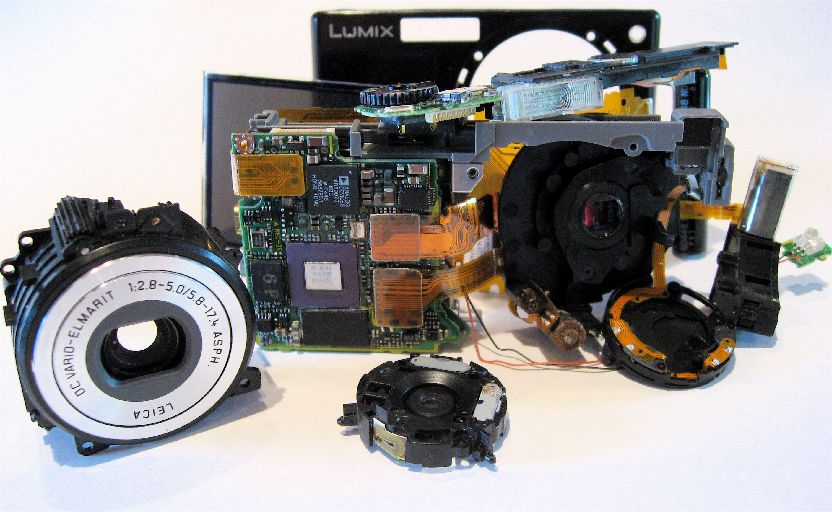 …of a Panasonic Lumix camera. I was curious to see how the image stabilization lens was implemented. That’s the center disc with x,y actuators. The disc on the far right is the shutter. It can still take pictures while naked.